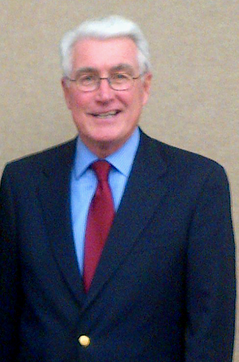 Former Governor Jim Edgar during event at the University of Illinois Springfield in 2013. Taken by W. Wadas